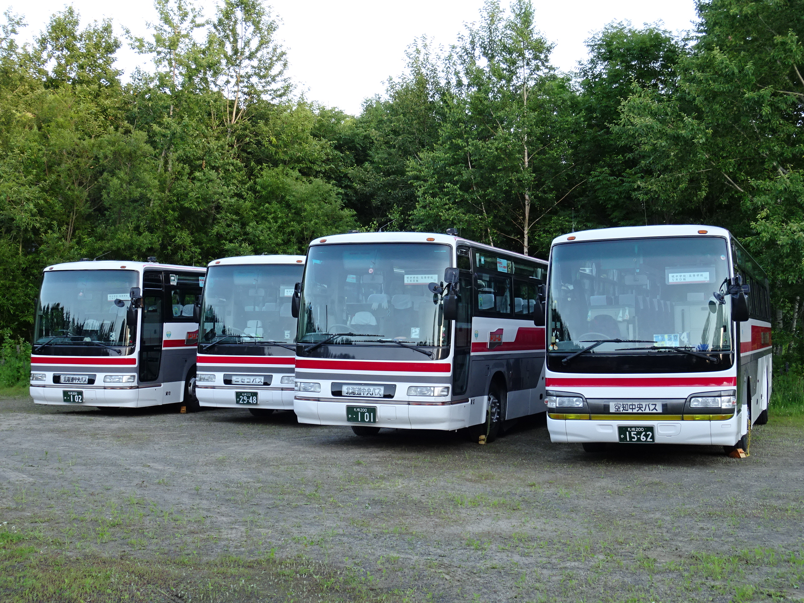 Chūō Bus Group